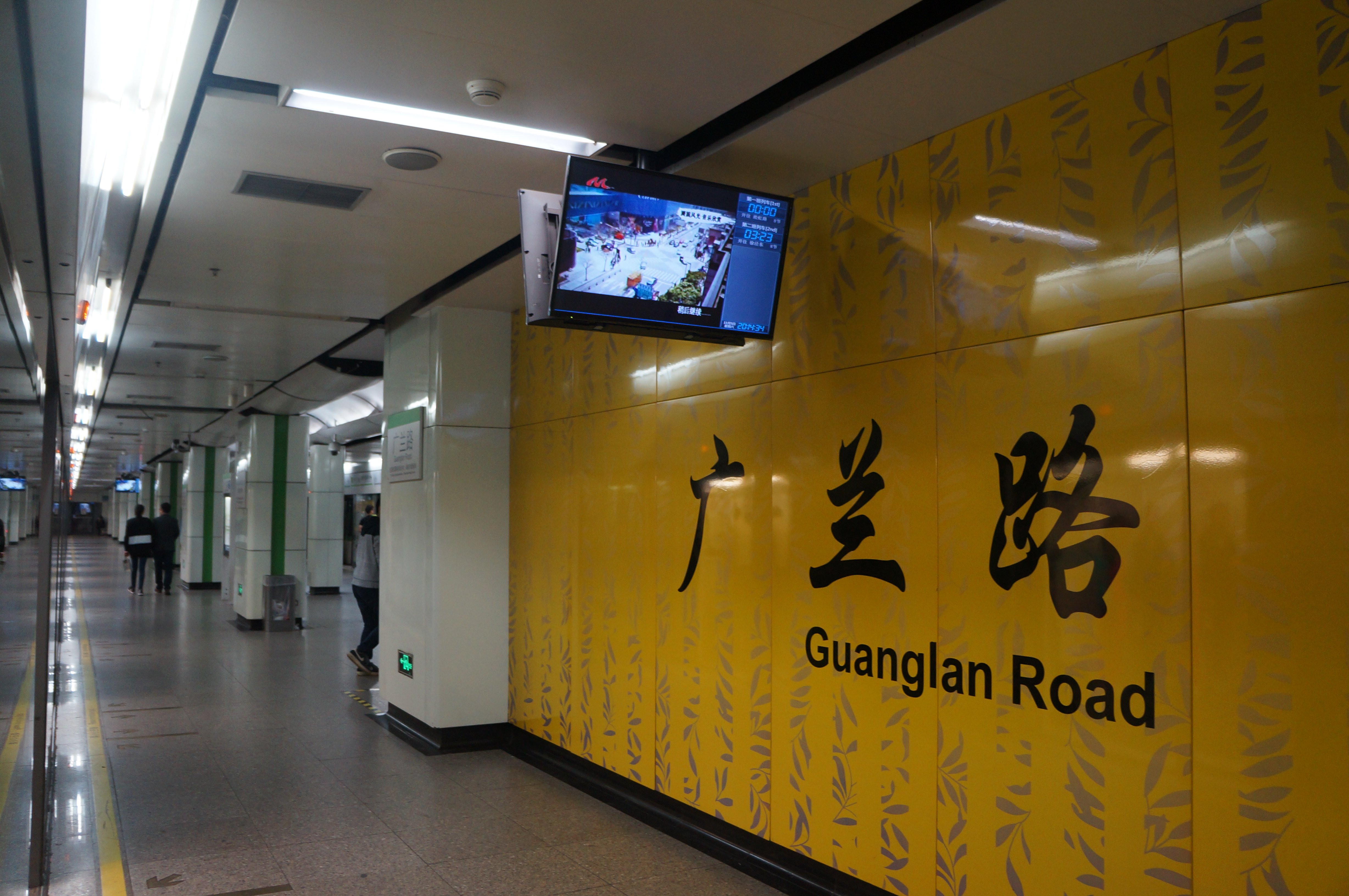 201611 Nameboard of Guanglan Road Station